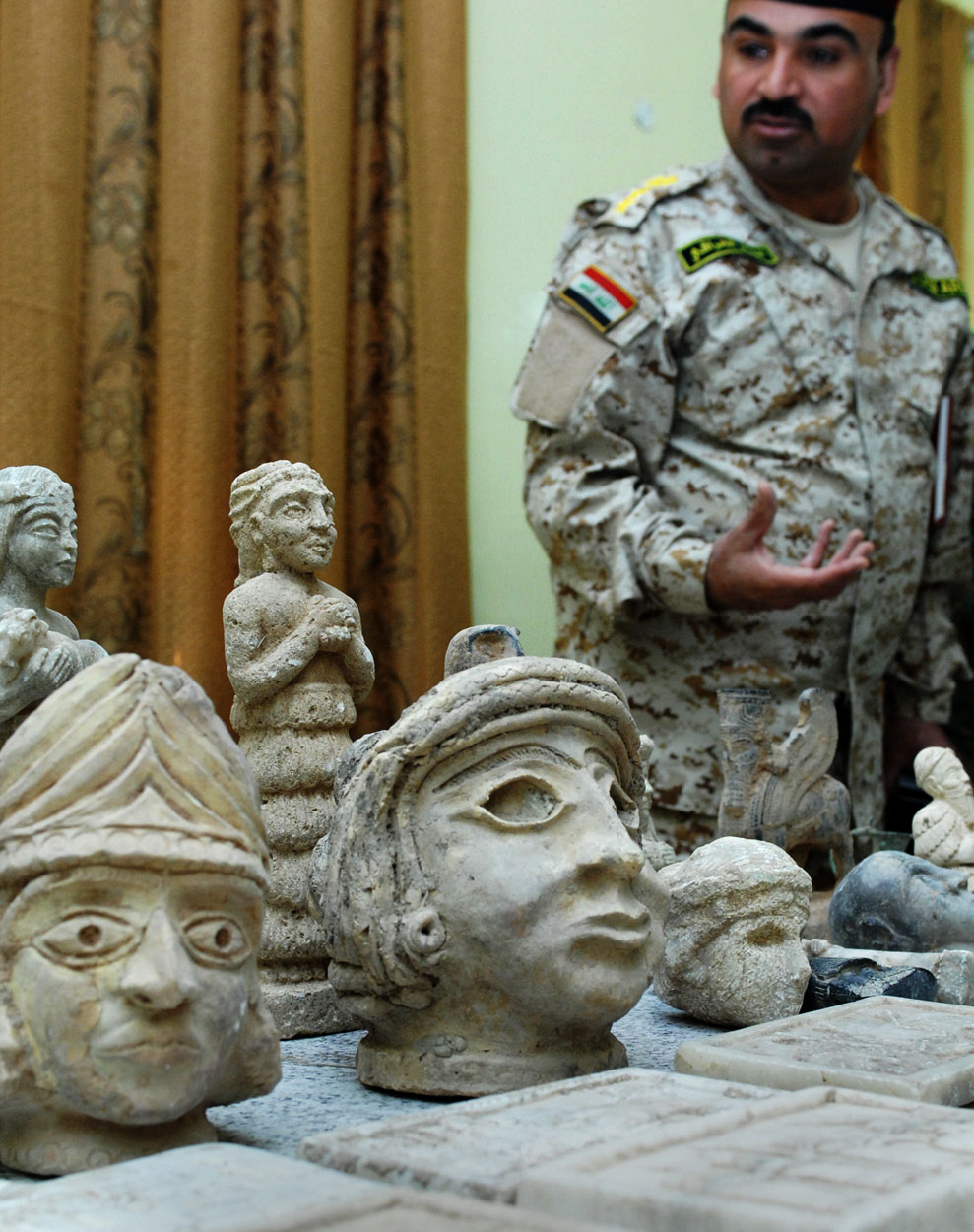 Iraqi Col. Ali Sabah, commander of the Basra Emergency Battalion, displays ancient artifacts Iraqi Security Forces discovered Dec. 16, 2008, during two raids in northern Basra.